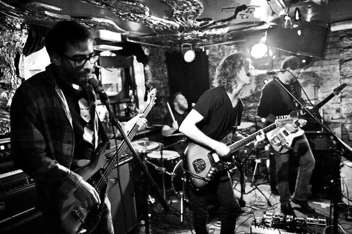 The band performing at L'esco in Montréal on December 29th, 2012